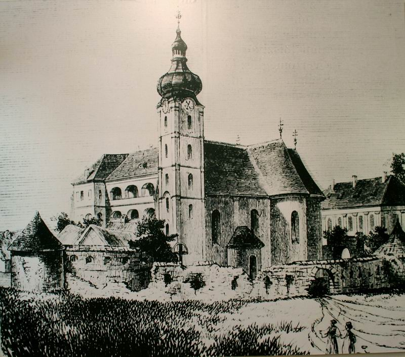 Engraving that depicts the greek catholic church of Hajdúdorog, Hungary, as it was in 1859.